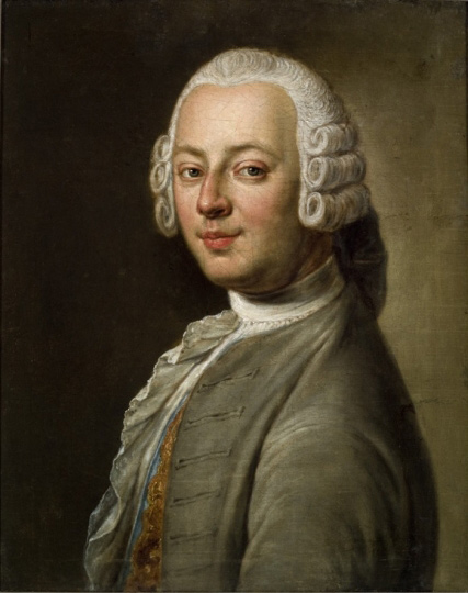 Depicted person: Christian Gottfried Krause